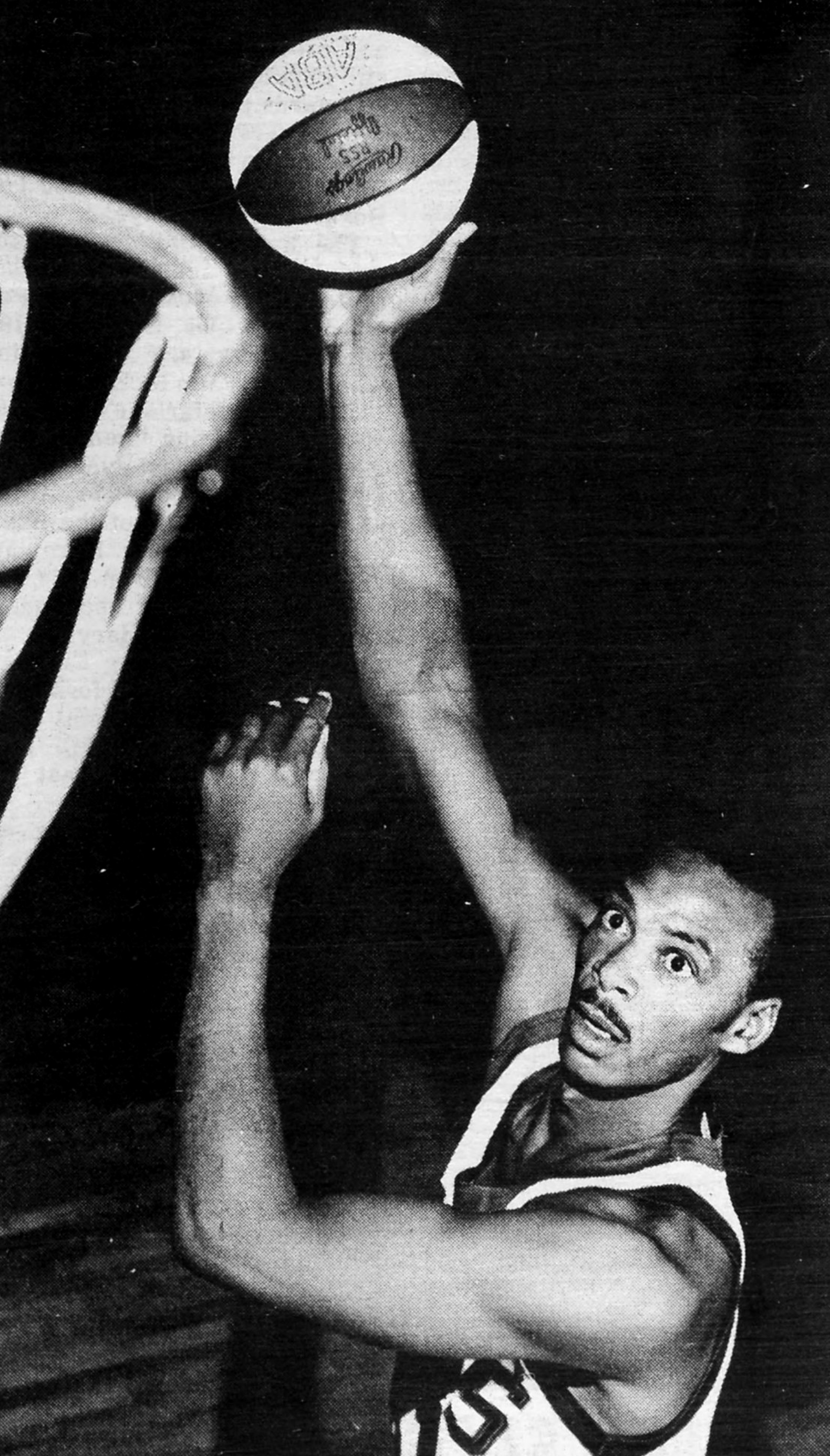 Professional basketball player Zelmo Beaty